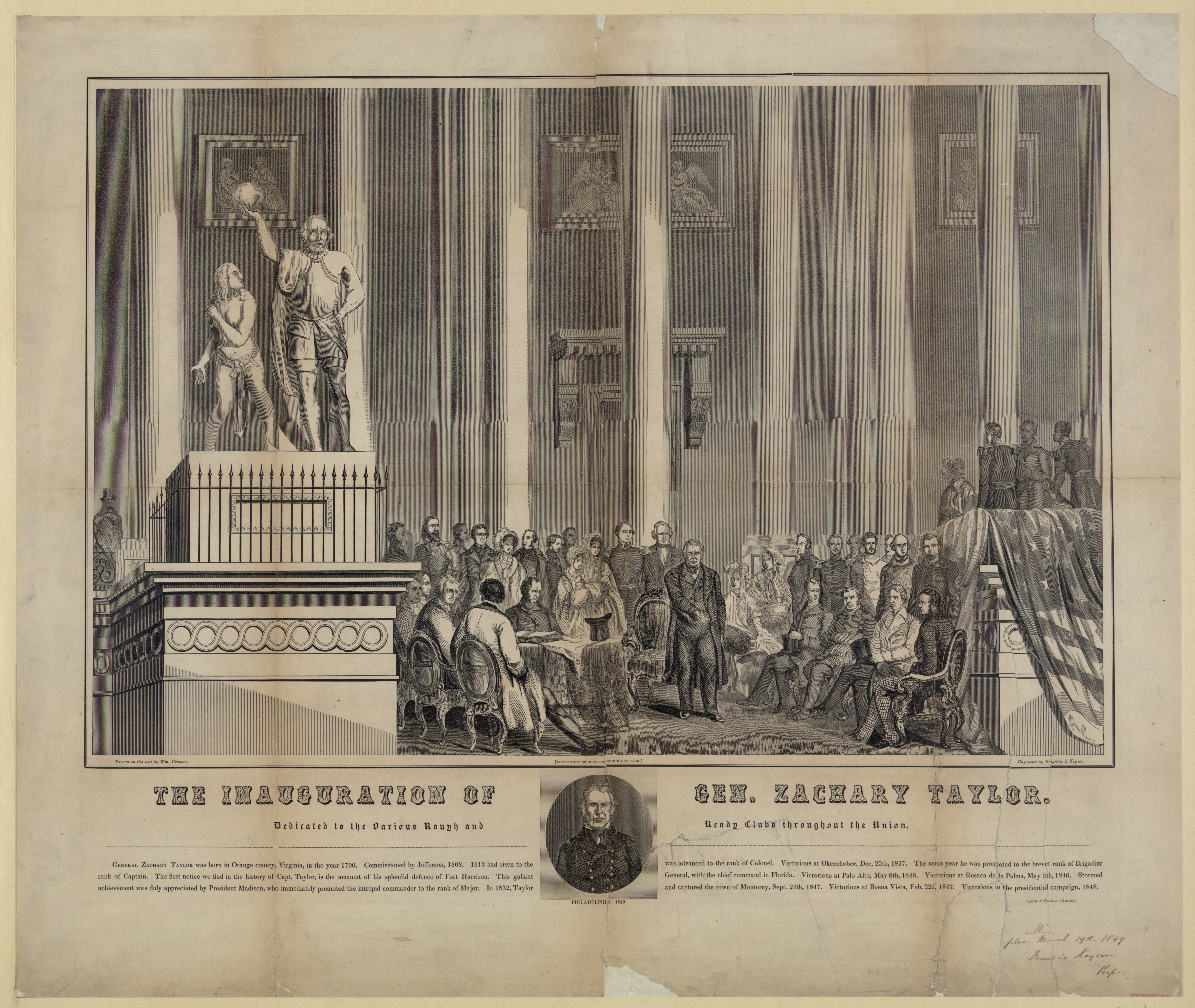 Title: The inauguration of Gen. Zachary Taylor--Dedicated to the Various Rough and Ready Clubs throughout the Union Physical description: 1 print : wood engraving. Notes: Drawn on the spot by Wm. Croome ; Engraved by Brightly & Keyser.